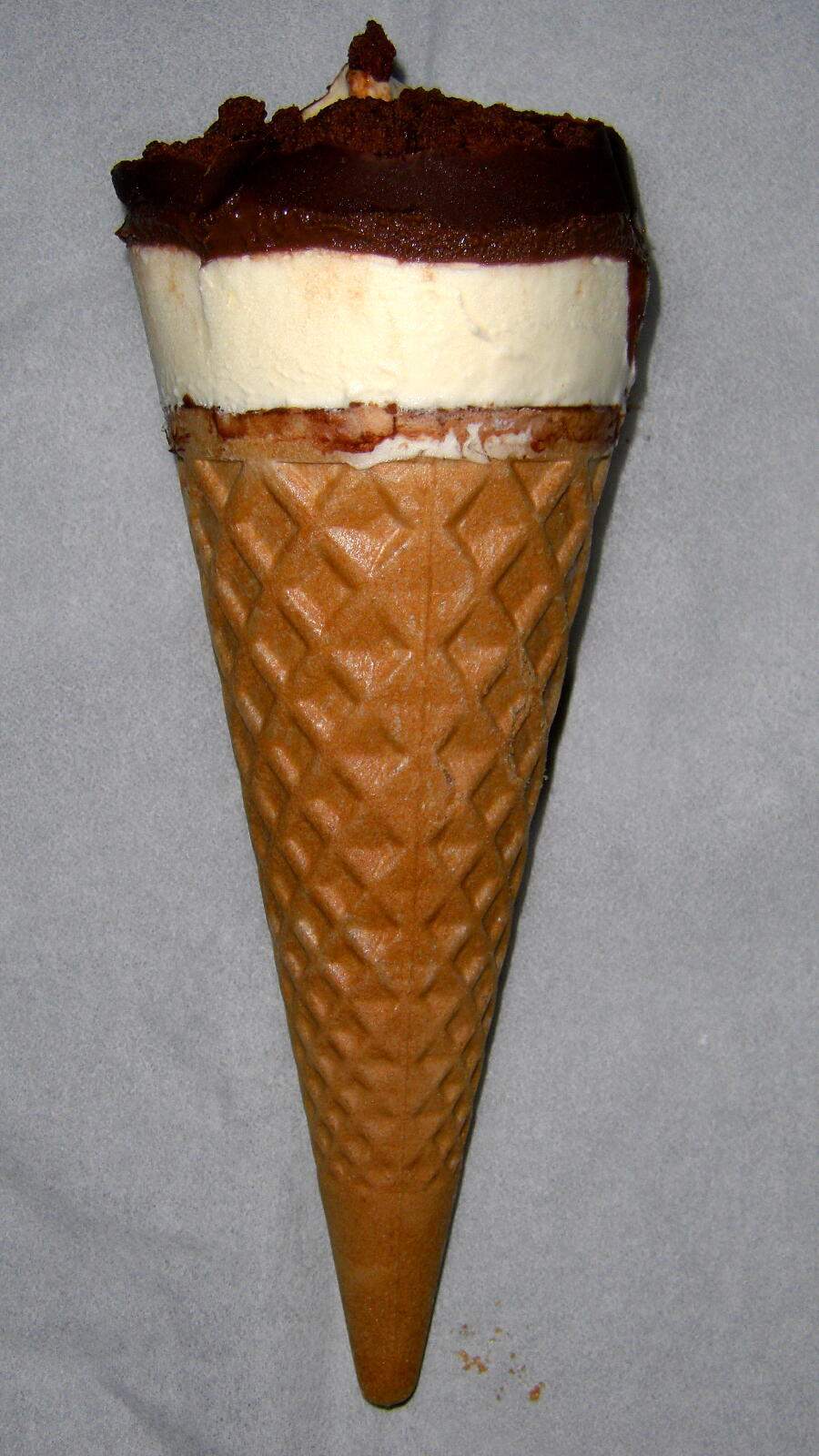 Glico Giant Corn